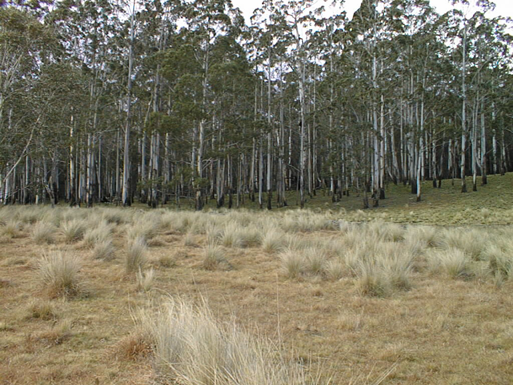 I took this photo in 2003.